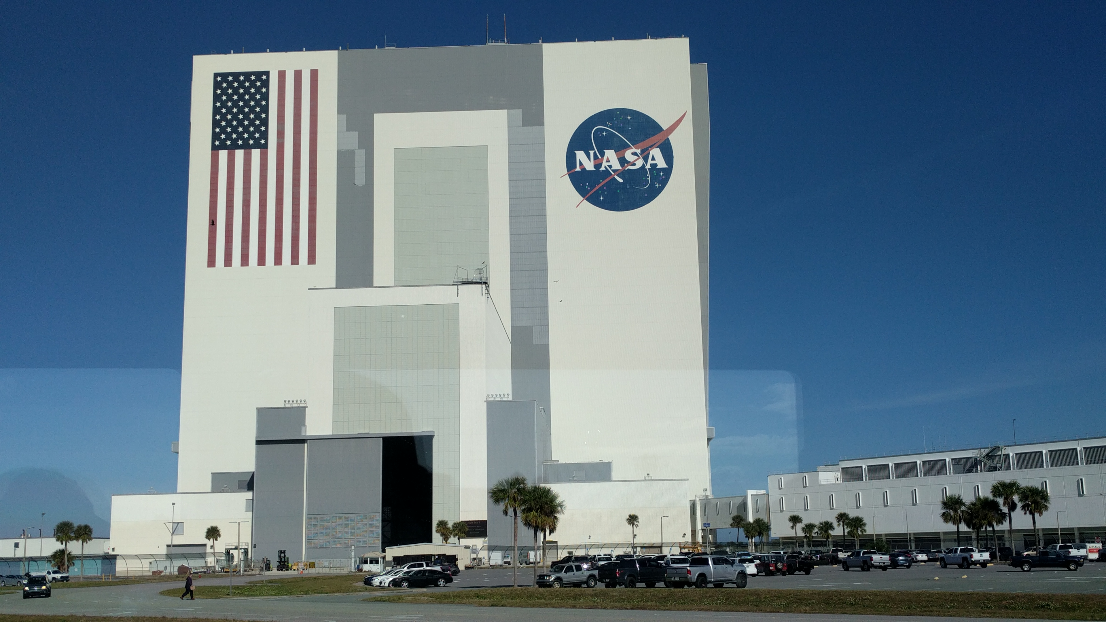 The Vehicle Assembly Building building at the Kennedy Space Center in Florida.